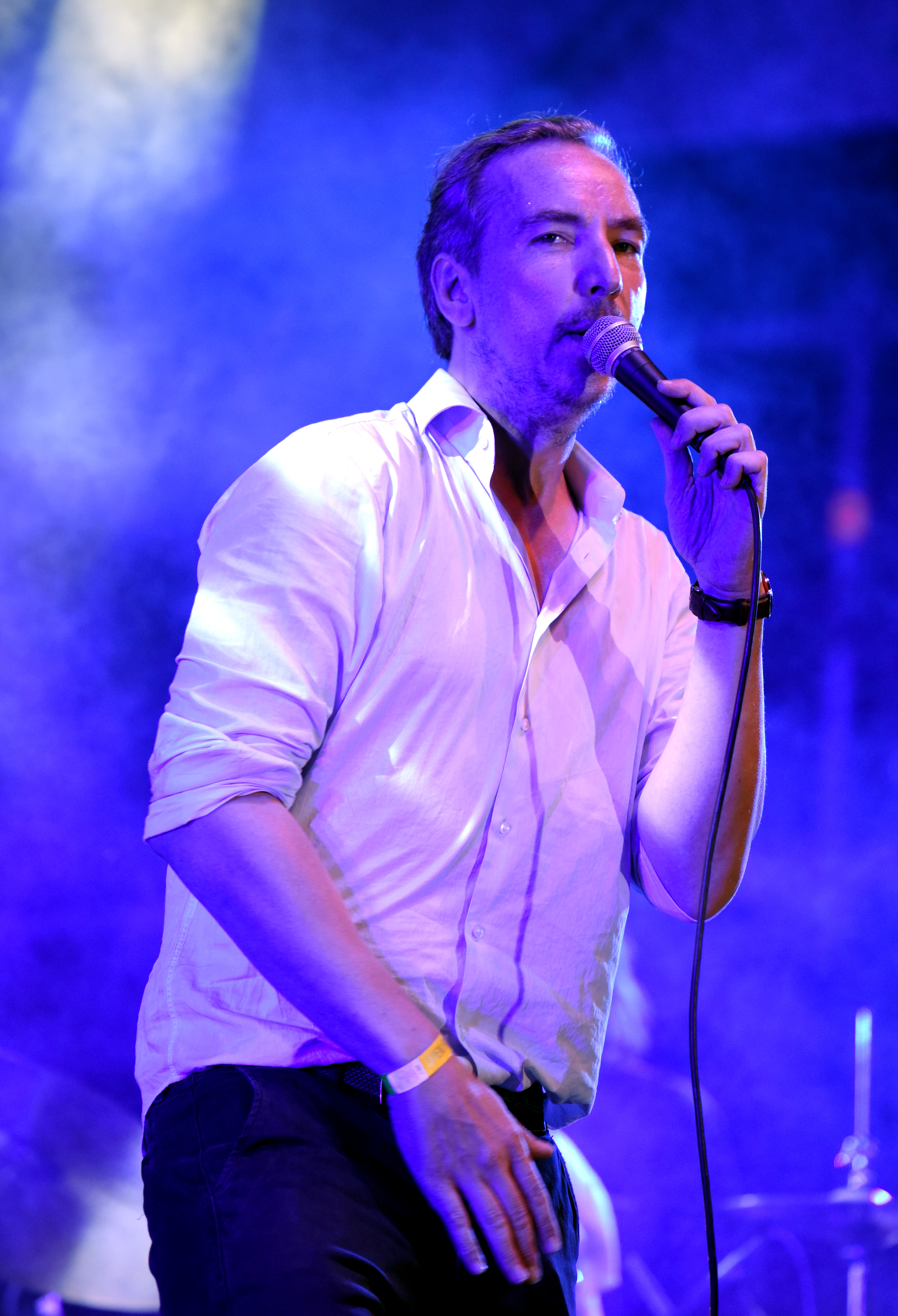 Olli Schulz at the Open Flair festival 2015 in Eschwege, Germany.